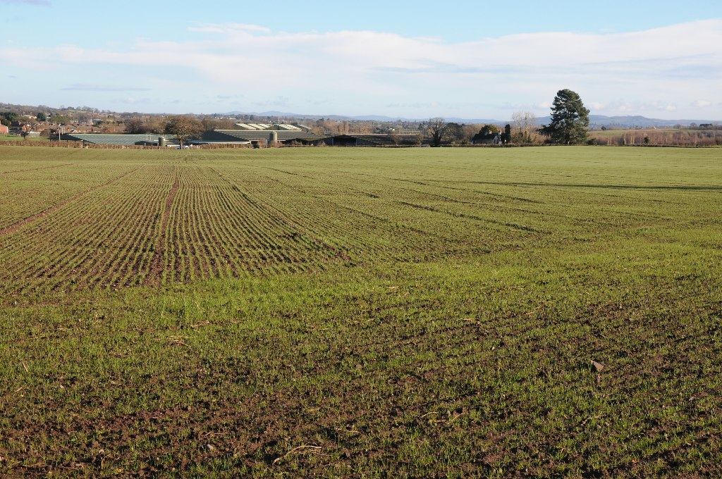 Site of Magnis Roman Town, Kenchester